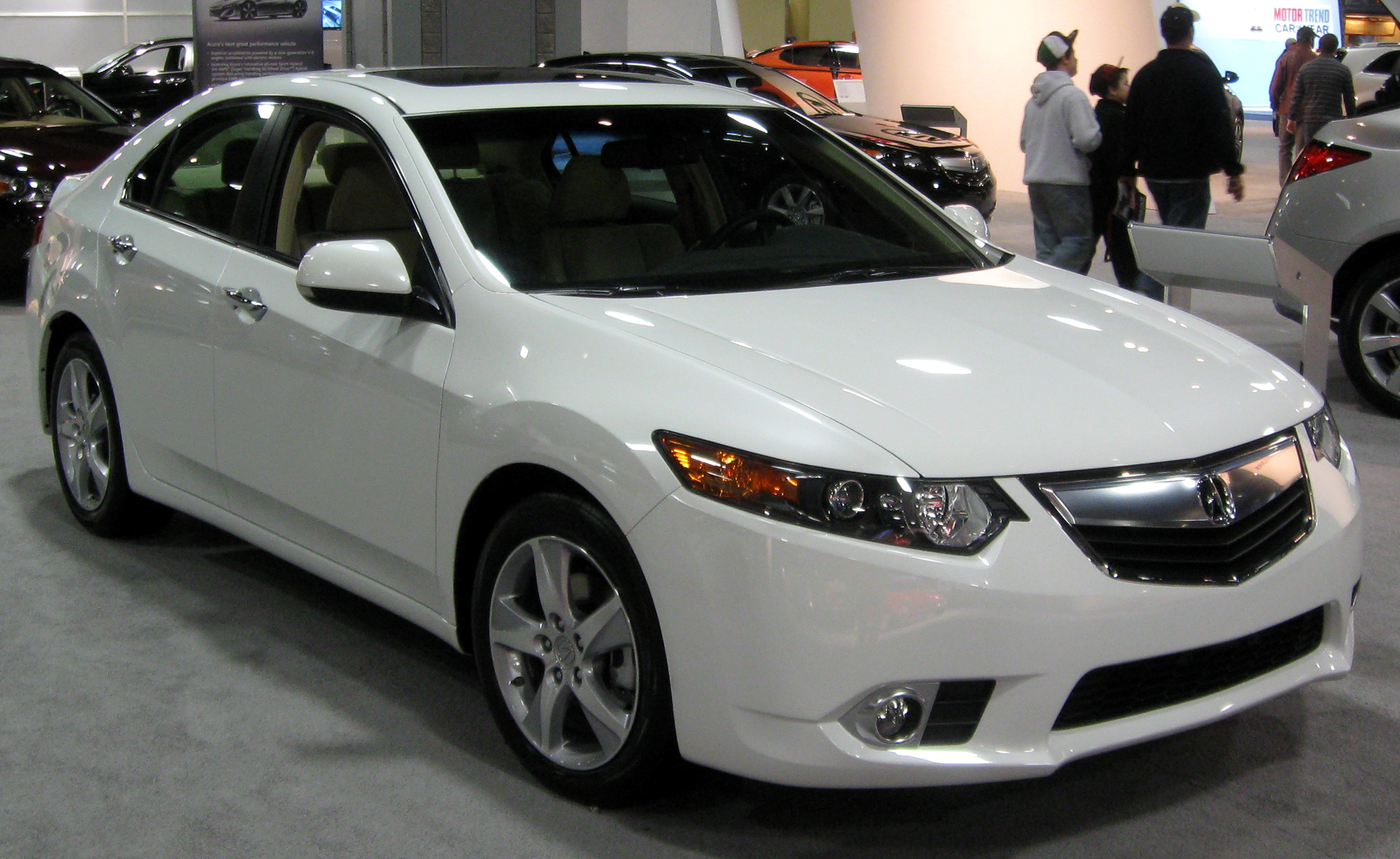 2012 Acura TSX photographed in Washington, D.C., USA.